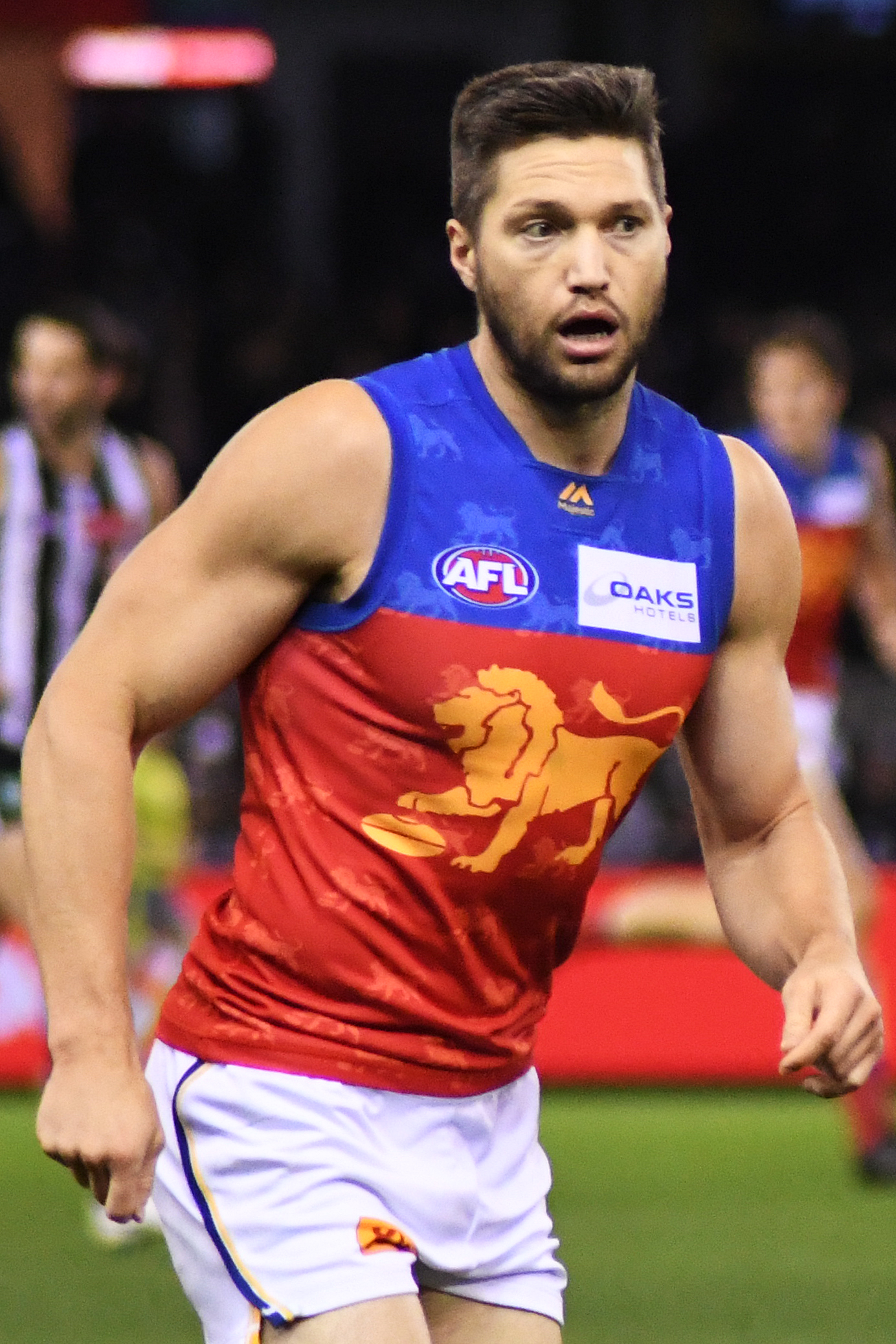 Stefan Martin of Brisbane during the 2018 AFL round 21 match between Collingwood and Brisbane at Etihad Stadium on Saturday, 11 August 2018 in Melbourne, Victoria.